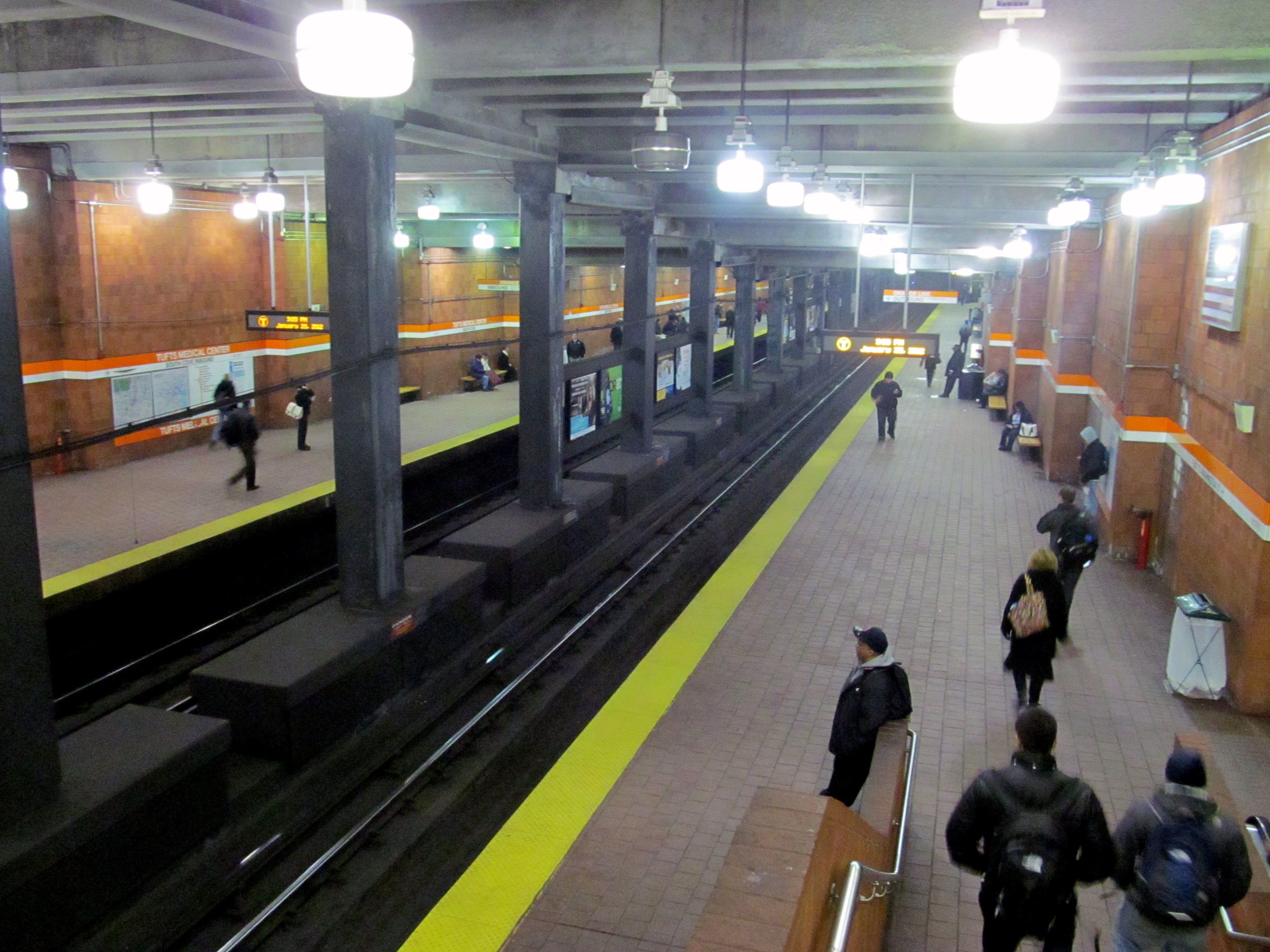 Tufts Medical Center station viewed from the mezzanine